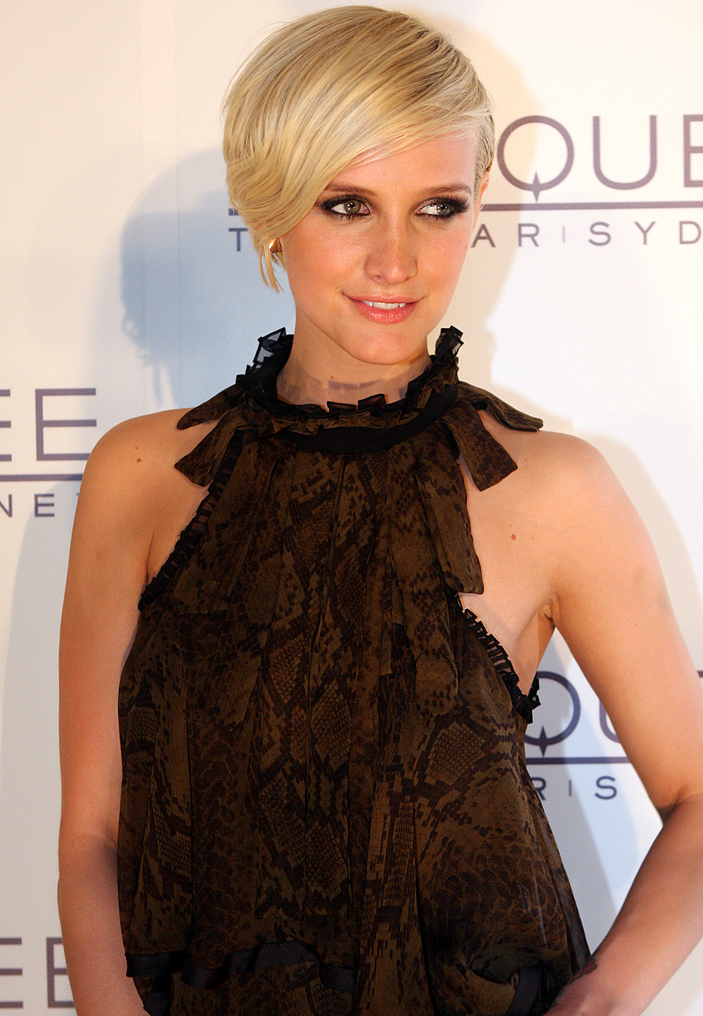 Ashlee Simpson at the Paris Hilton: Marquee The Star Sydney 2012.